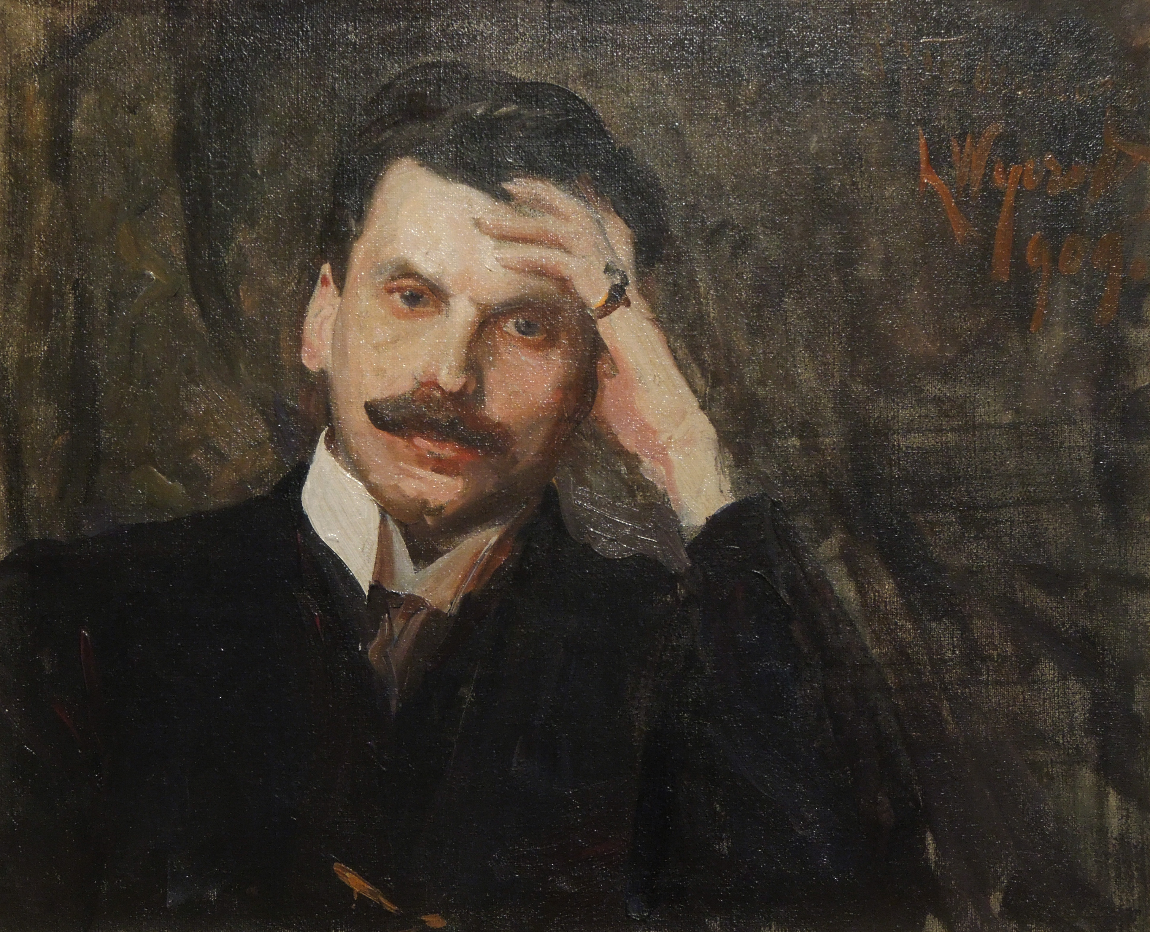 Leon Wyczółkowski - Portrait of Tadeusz Boy-Żeleński, 1907, oil on canvas